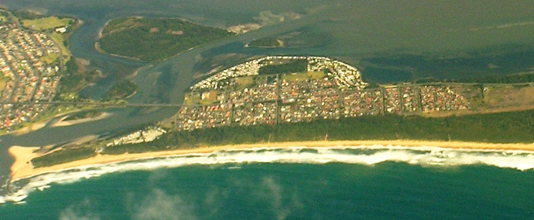 Aerial photo of Windang near Wollongong from the east